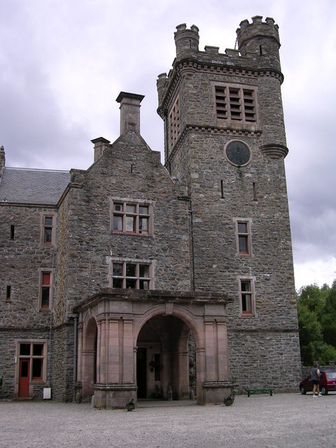 Carbisdale castle near Invershin Built by the Countess of Sutherland between 1906 and 1917. It has been a Youth Hostel since 1945.